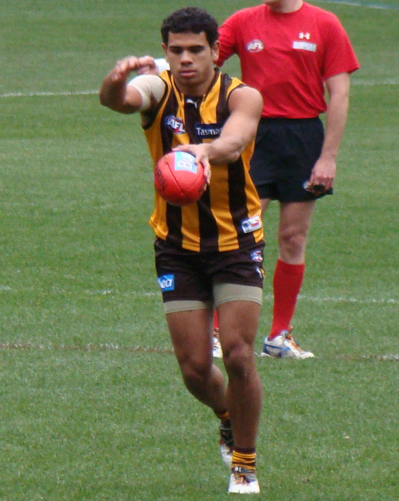 Cyril Rioli perfect balance